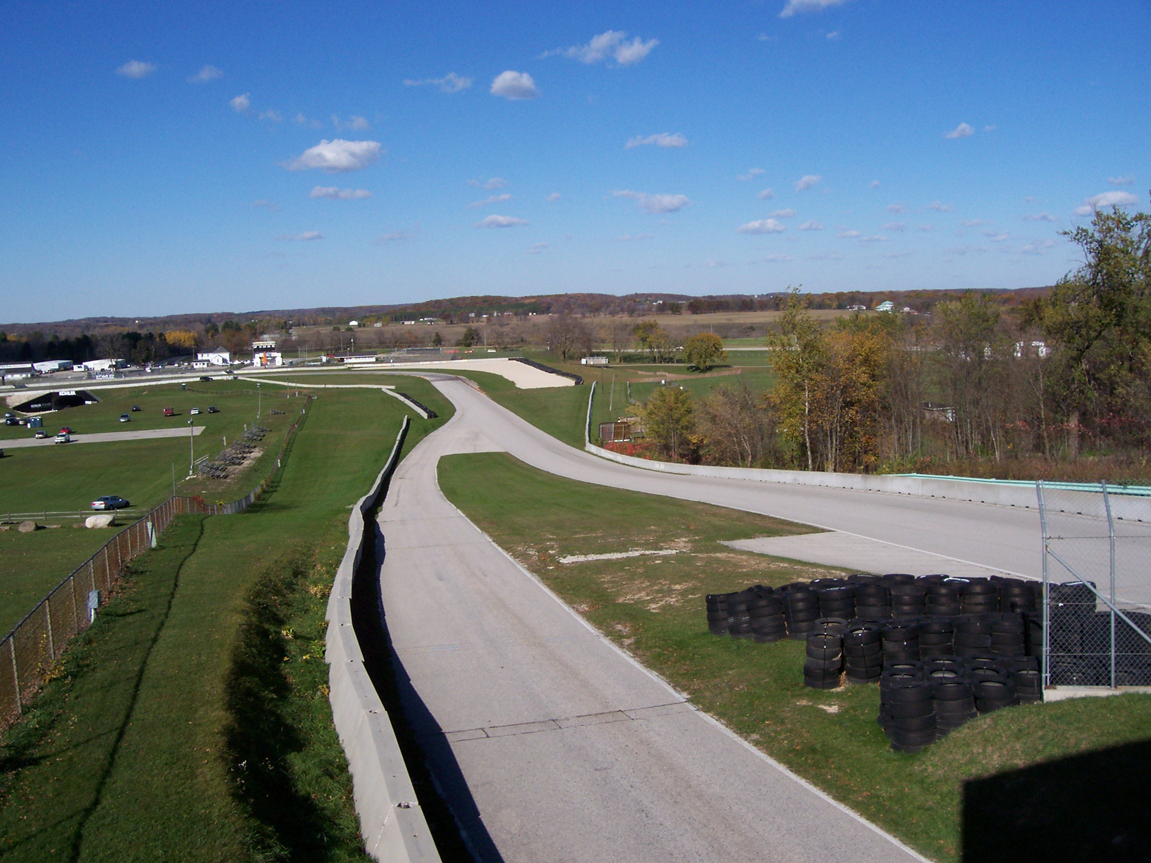 Taken on the bridge over the frontstretch